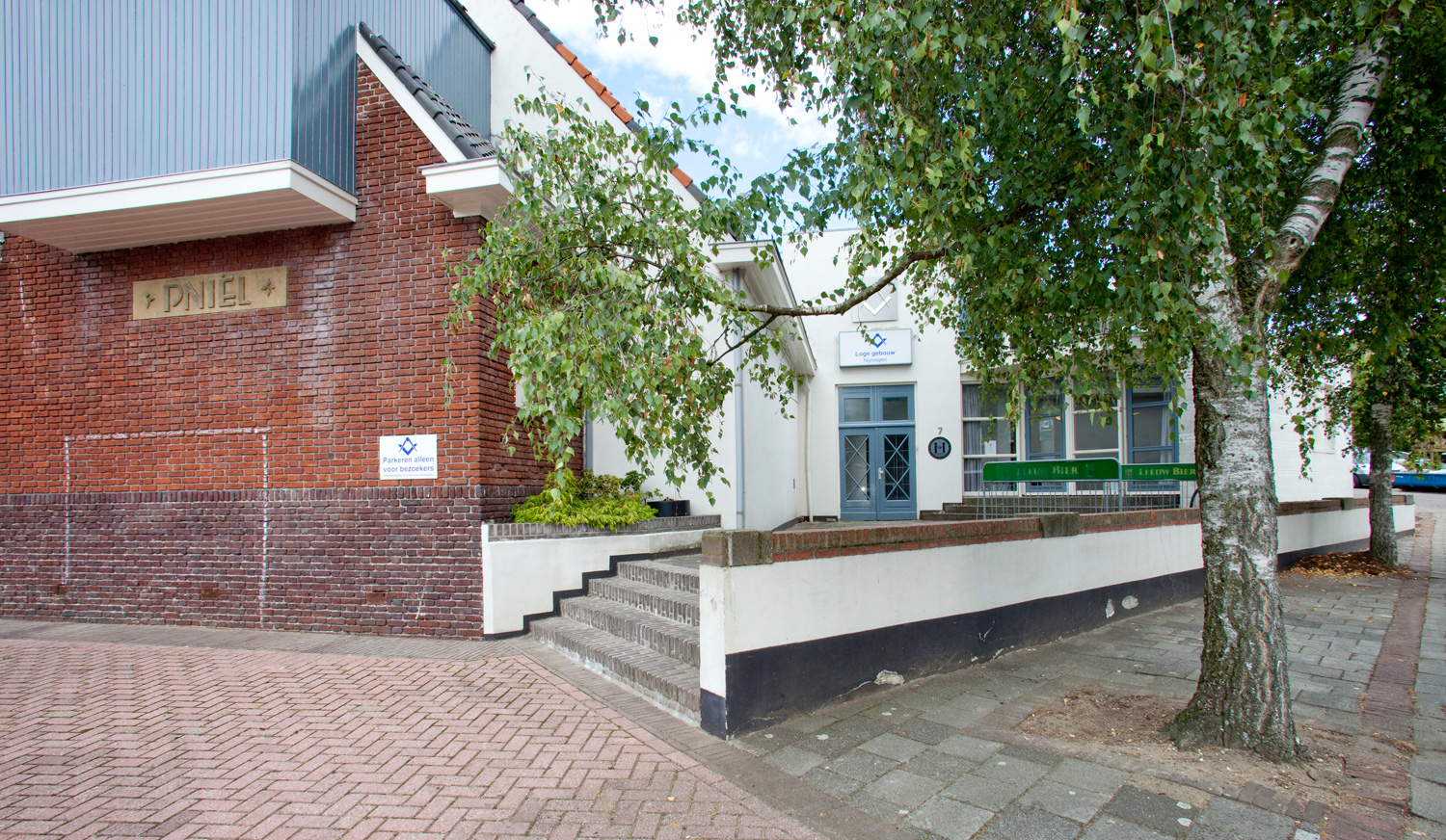 Loge Sint Lodewijk